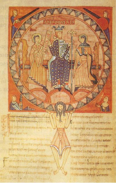 Alfonso V of León in the Libro de los Testamentos, folio 53v, from Oviedo Enciclopedia.